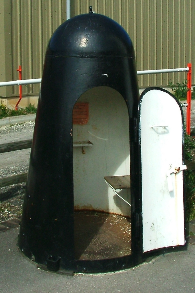 An armour plated one man air-raid shelter. Taken at Amberley Working Museum, England.